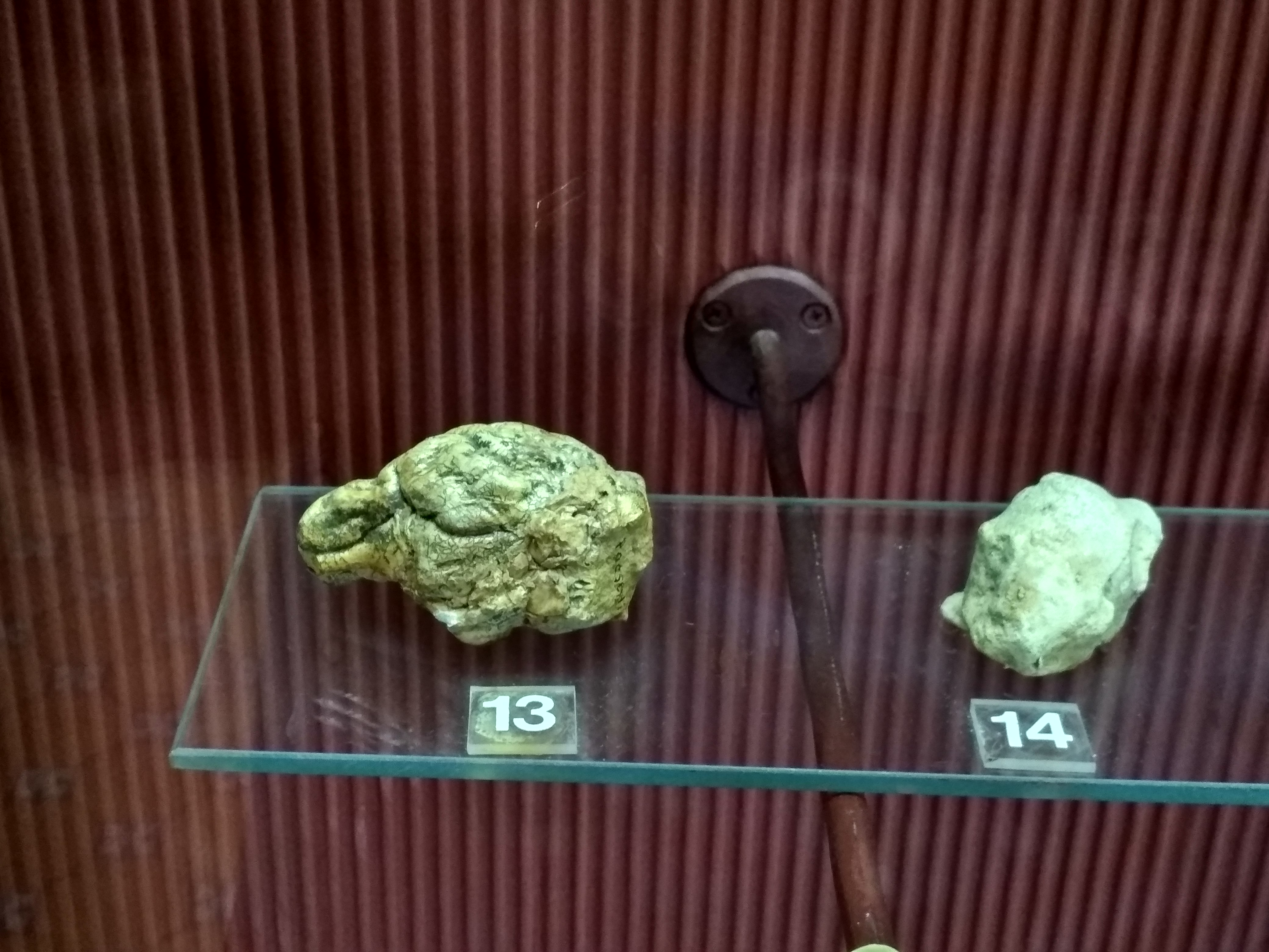 Brain and a nerve of a fossil gazelle (upper Sarmatian – 10-9 mln. ani), found within the site of vertebrate fossils near Pocșești, Orhei district, Moldova